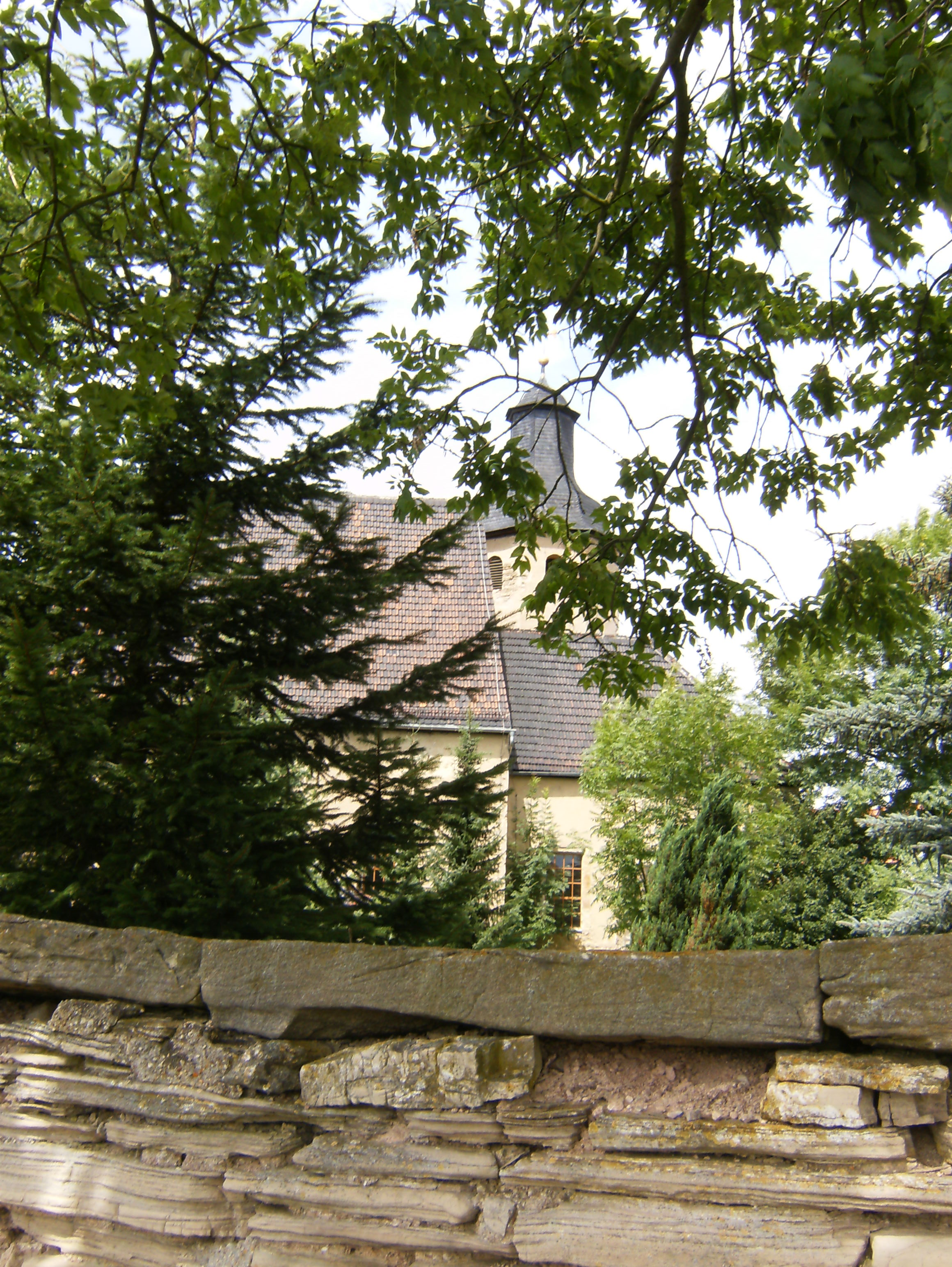 Gera Dorna, village church.